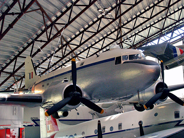 Royal Air Force Douglas Dakota IV KN645 on display in the National Cold War exhibition at RAF Cosford. Monday 27th August 2007